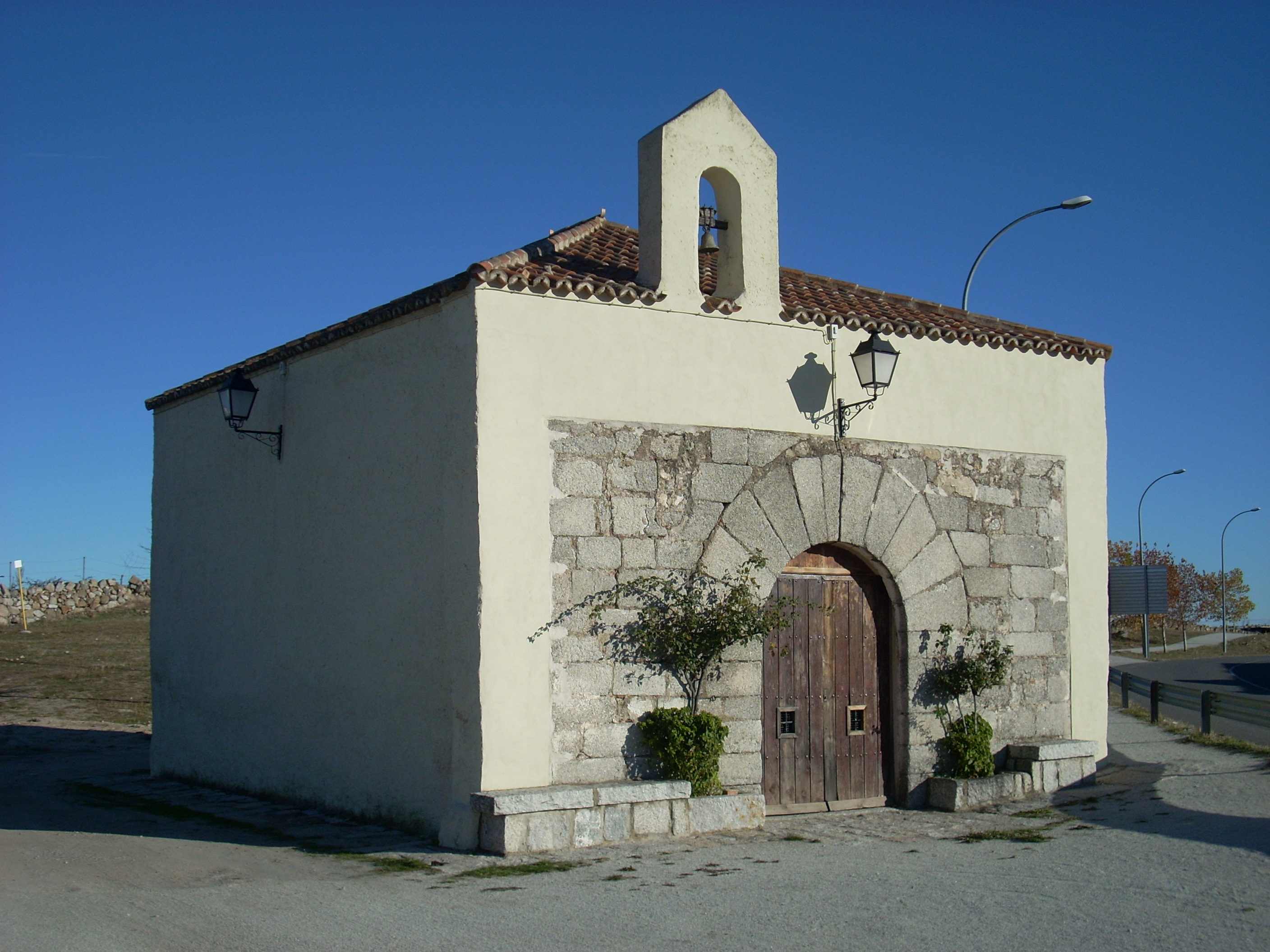 Chapel of Saint Anne, Colmenar Viejo, Madrid, Spain